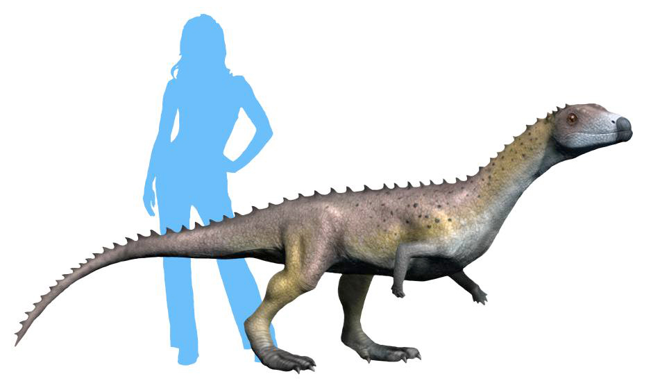 Life restoration of Sillosuchus longicervix